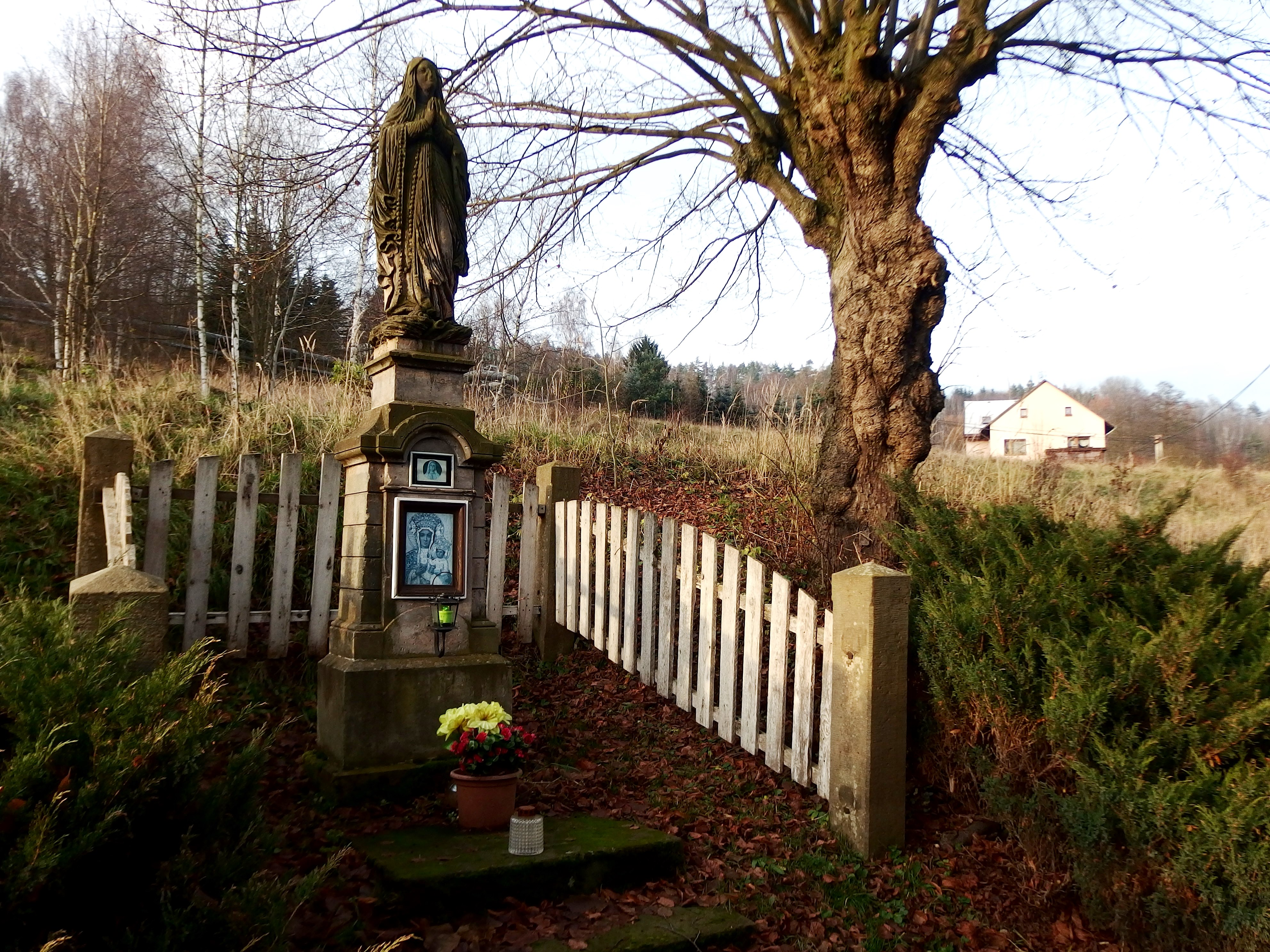 Trutnov, Czech Republic, part Lhota.